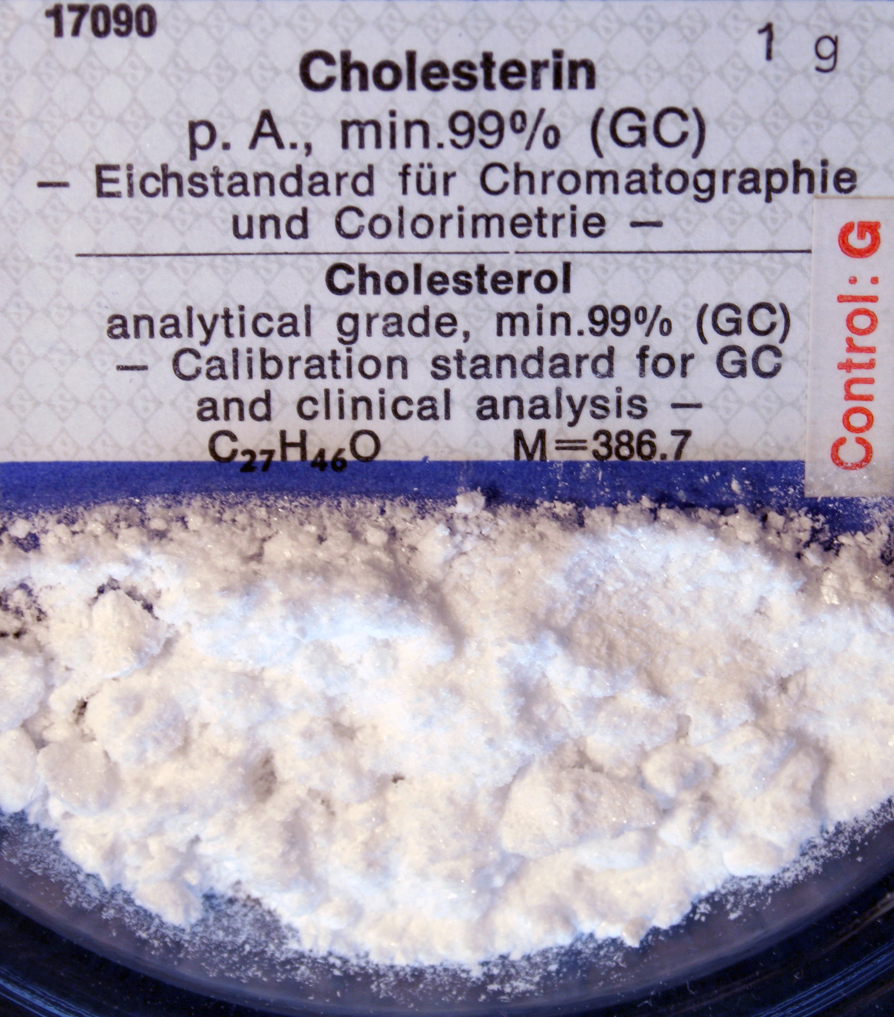 Photograph of the organic compound Cholesterol in its pure form. Quantity shown: 1 g.